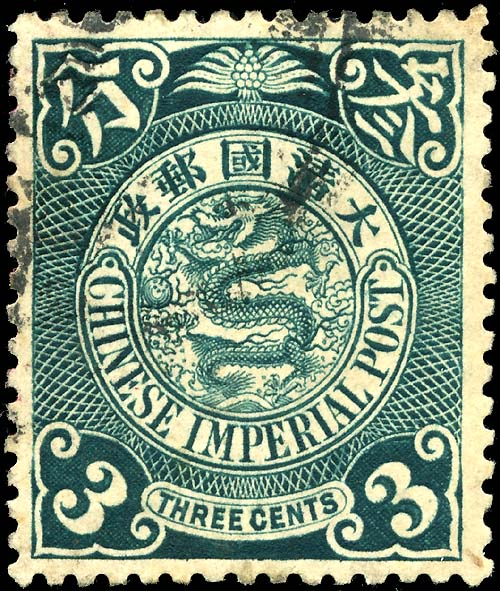 China 3-cent stamp of 1910